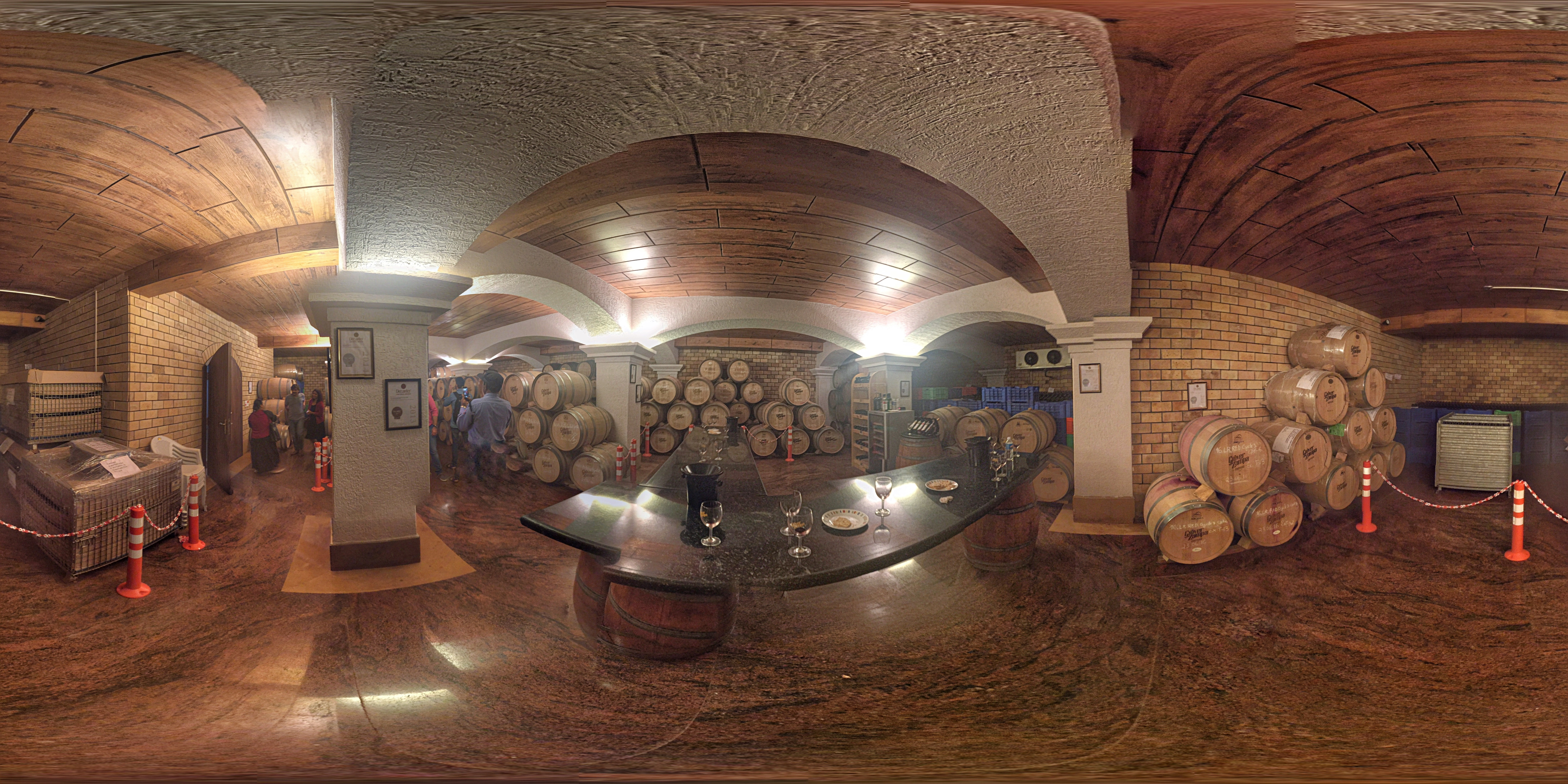 360° view of a wine cellar at the Grover Zampa Vineyard, Doddaballapura, Karnataka, India.